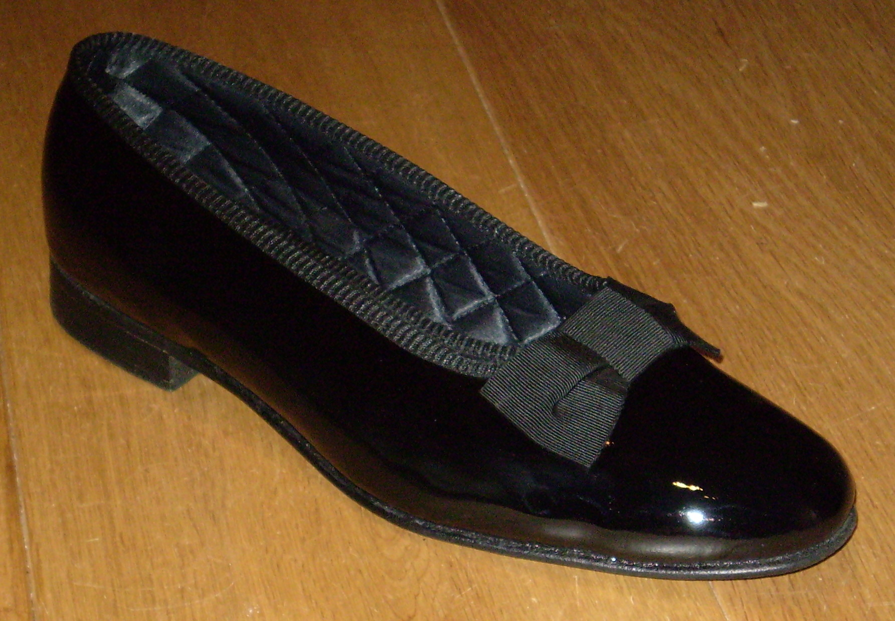 A patent leather men's court shoe (pump), with quilted lining and grosgrain bow on the front, suitable for wearing with black tie or white tie.